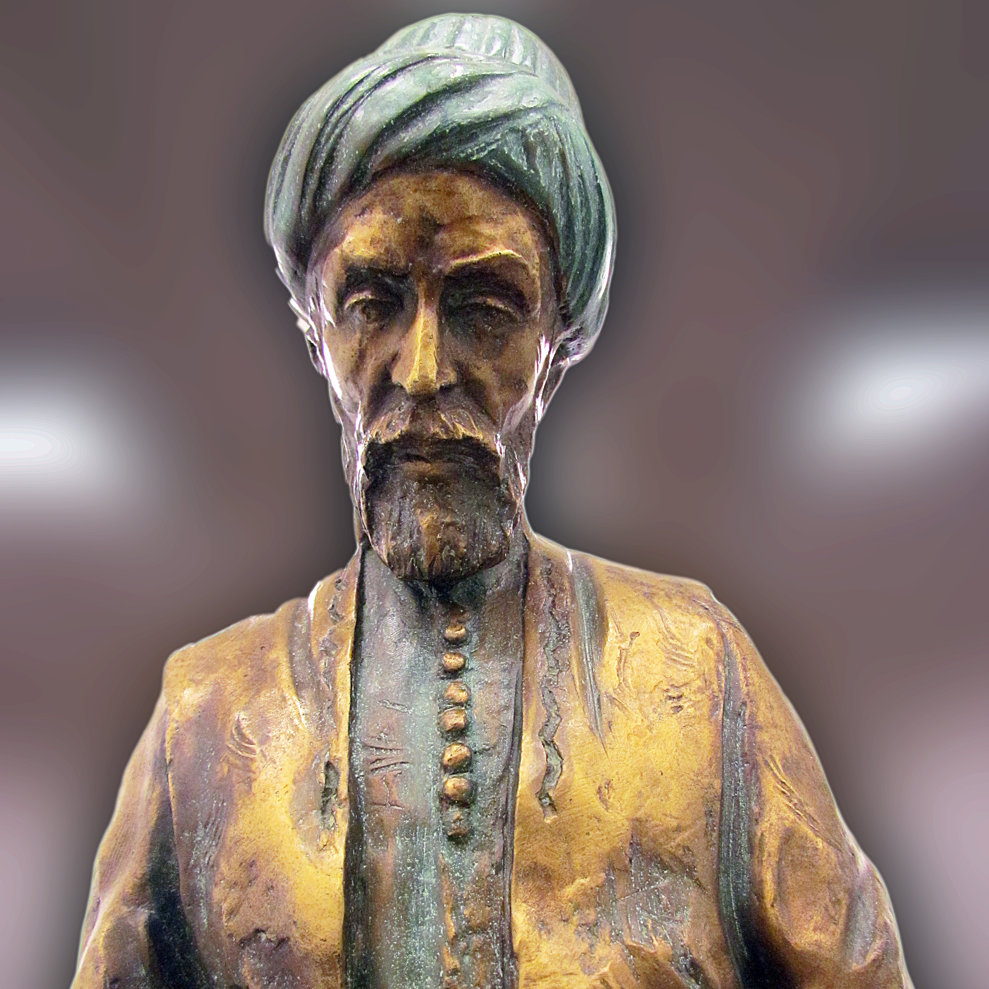 Evliya Çelebi was an Ottoman explorer who travelled through the territory of the Ottoman Empire.